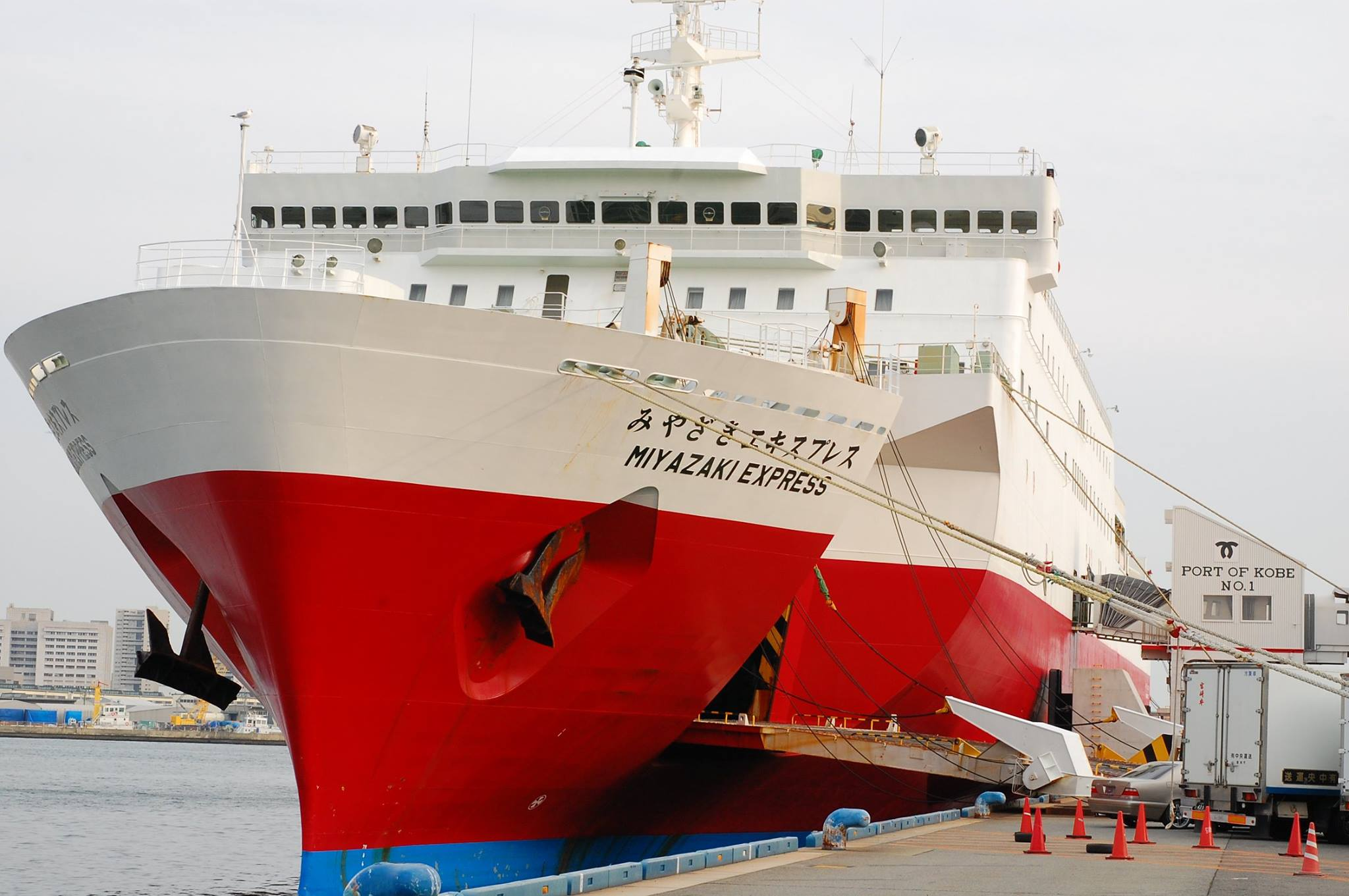 Car-ferry Miyazaki Express in Kobe harbour